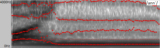 On this picture is seen a spectrogram of vowel /a/ followed by a palatalized consonant /n/